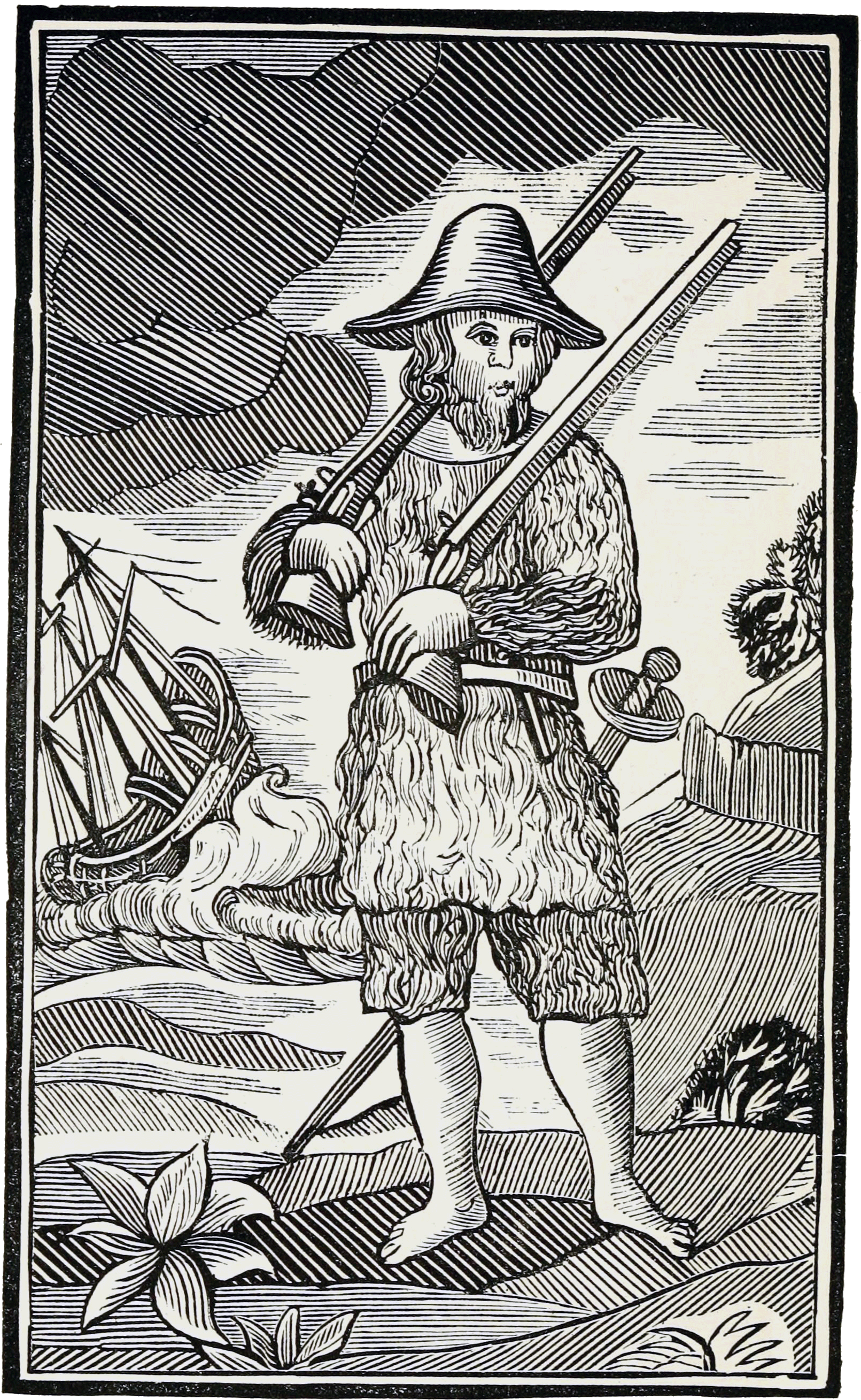 Illustration from an 18th century chapbook reproduced in Chap-books of the eighteenth century by John Ashton (1834).